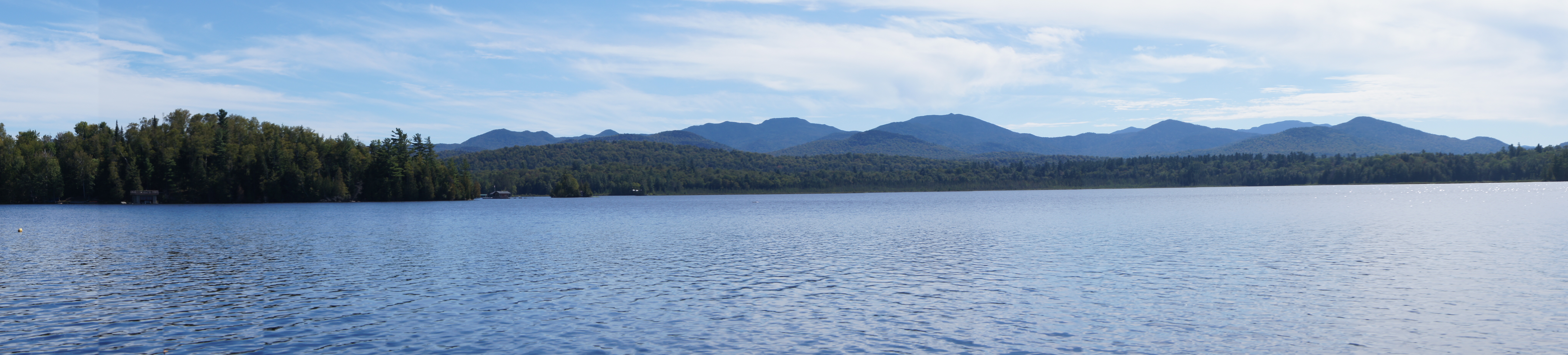 Looking South across Oseetah Lake towards the Sawtooth Range in Franklin and Essex Counties.